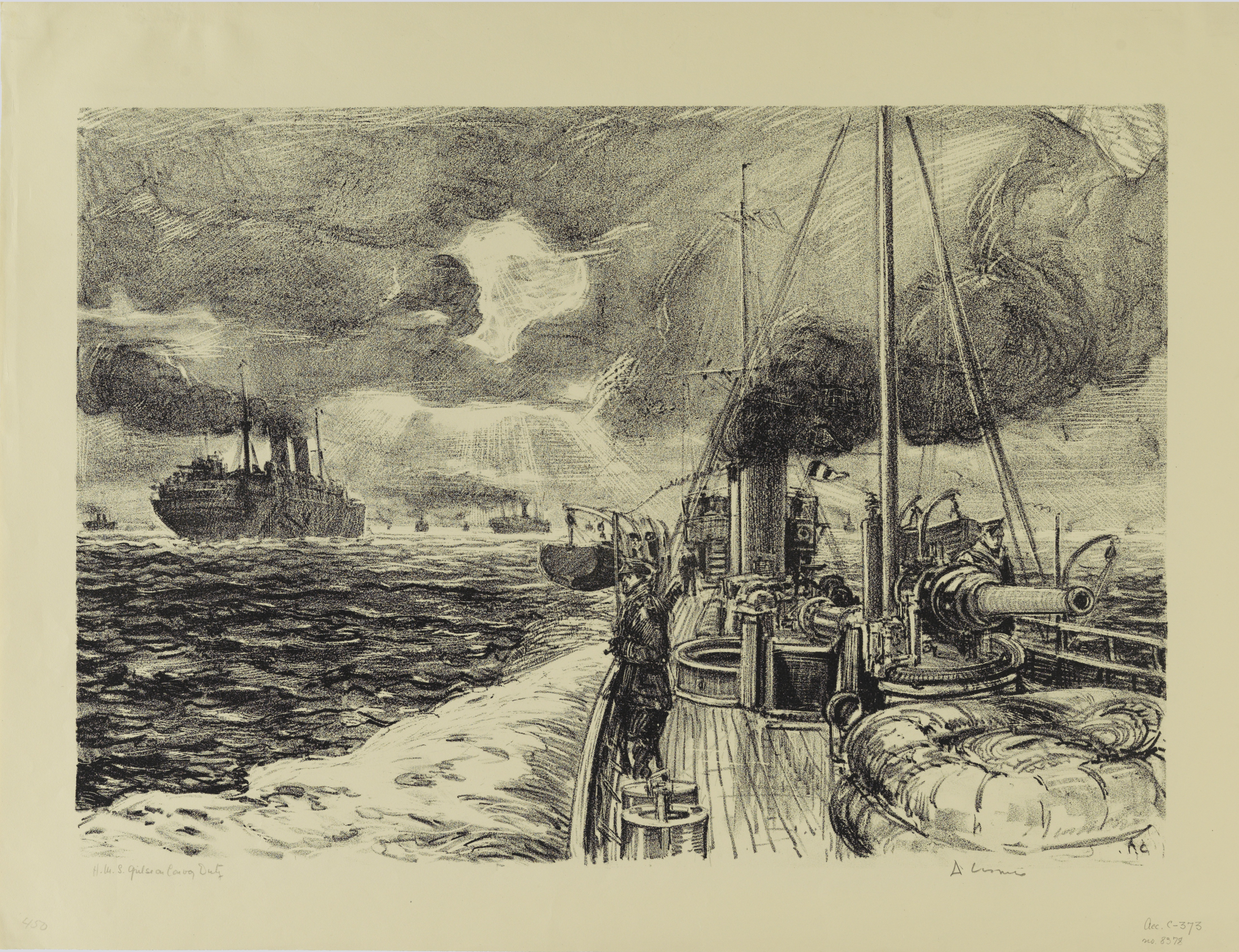 The Grilse was a converted yacht (the Winchester), outfitted with two 12-pounder guns and one 14-inch torpedo tube. She was 61.5 metres long and could make 32 knots (59 kilometres an hour) at full speed. Canada had a weak navy at the start of the war, but after German U-Boats began to sink civilian ships on the Atlantic, the government scrambled to build new vessels. It also asked civilians to donate their own ships. Looking forward along HMCS Grilse's long, narrow hull, war artist Arthur Lismer's print captures Grilse's destroyer-like shape and high speed. Armed with two 12-pounder guns, one of which is seen in the foreground, and a 14-inch torpedo tube, Grilse was often described as a torpedo boat. Grilse and other small Canadian naval vessels carried out coastal patrols and escorted ships out into the Atlantic, but could not cross the ocean. Such convoy work helped discourage U-Boats that might be waiting for ships leaving the major ports of Halifax, Saint John, or Sydney.